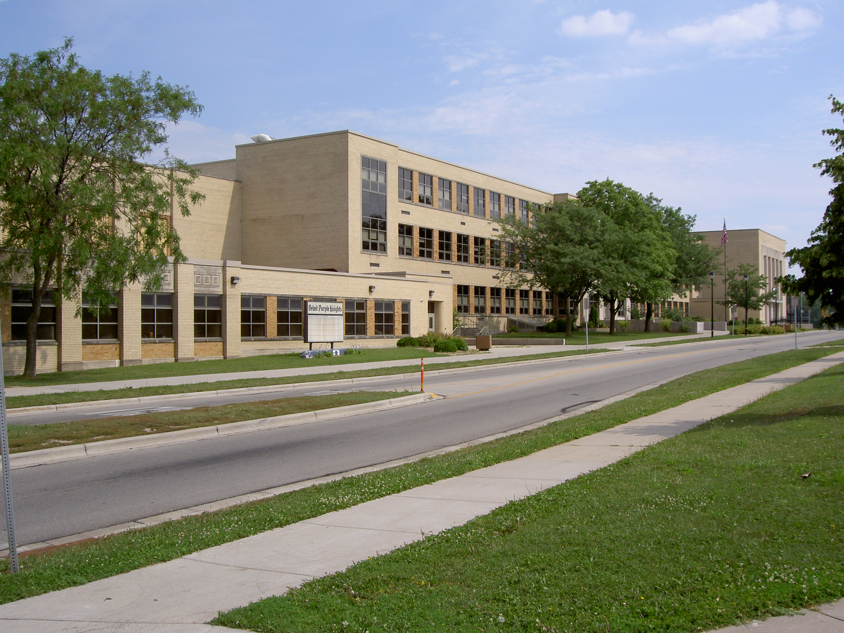 Taken by Adam Lautenbach on July 8, 2006.